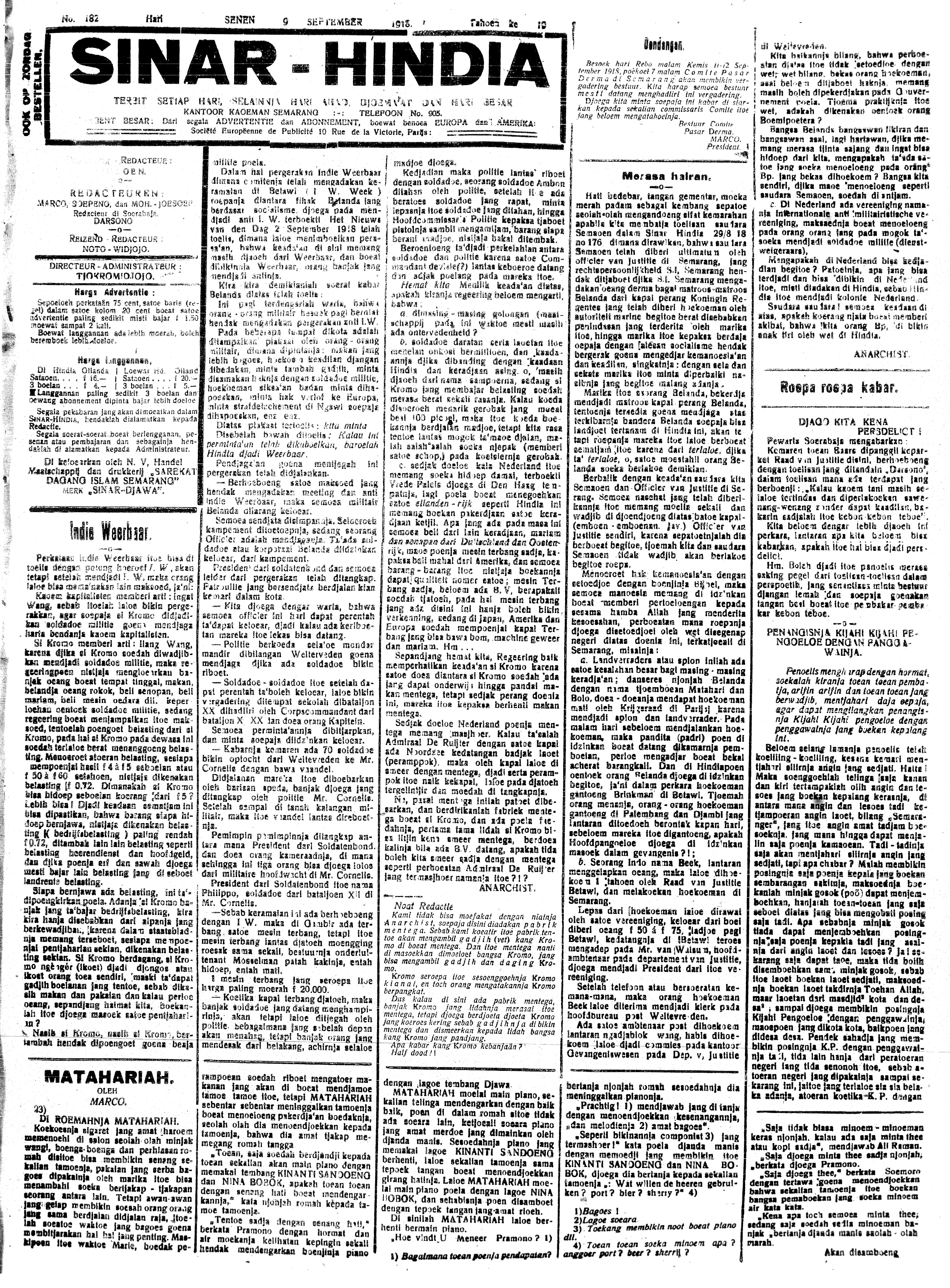 The front page of Sinar Hindia, a left-wing Malay-language newspaper from Semarang, Dutch East Indies, from the September 9, 1918 issue.